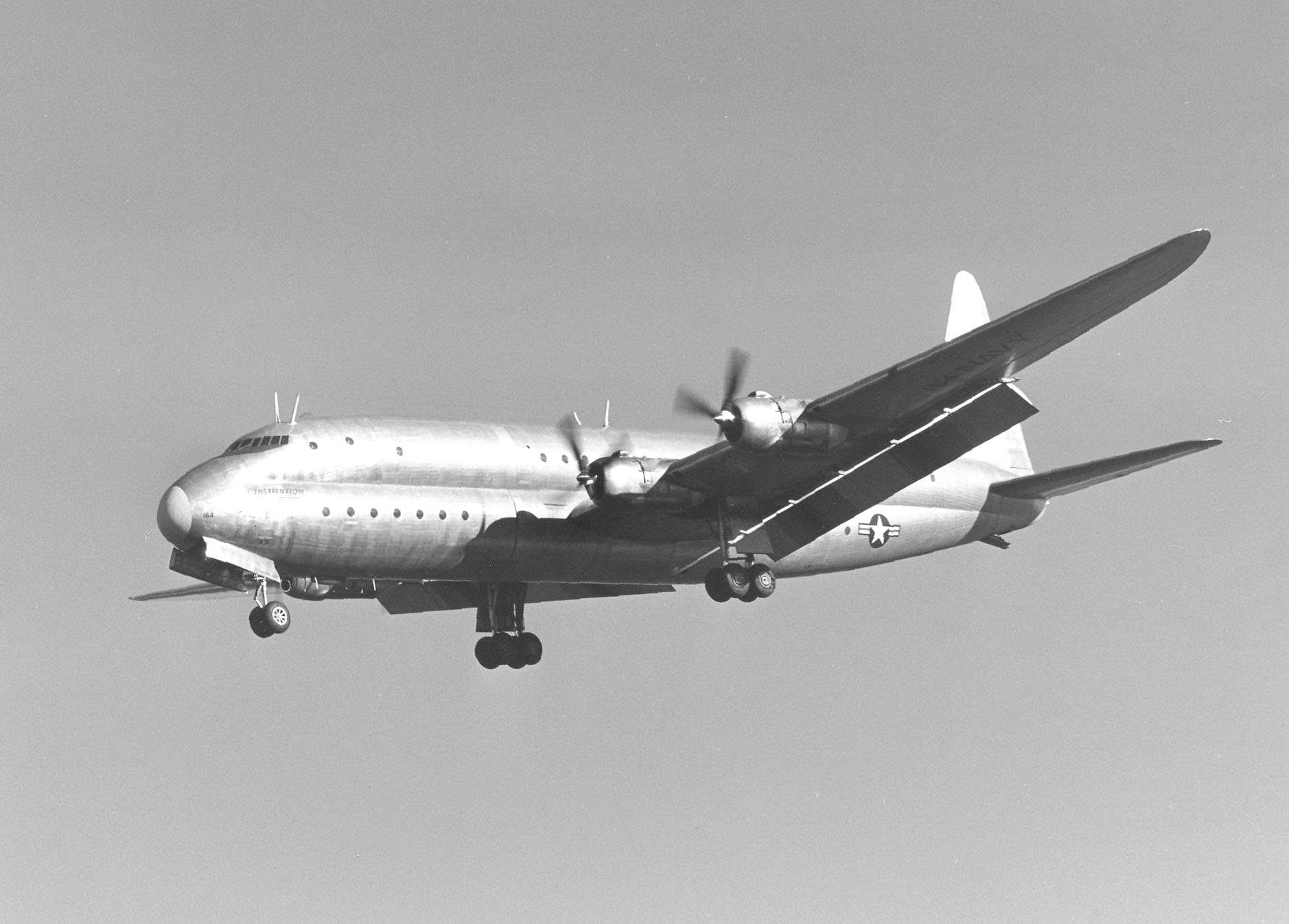 A U.S. Navy Lockheed XR6V-1 Constitution landing at Naval Air Station Moffett Field, California (USA).